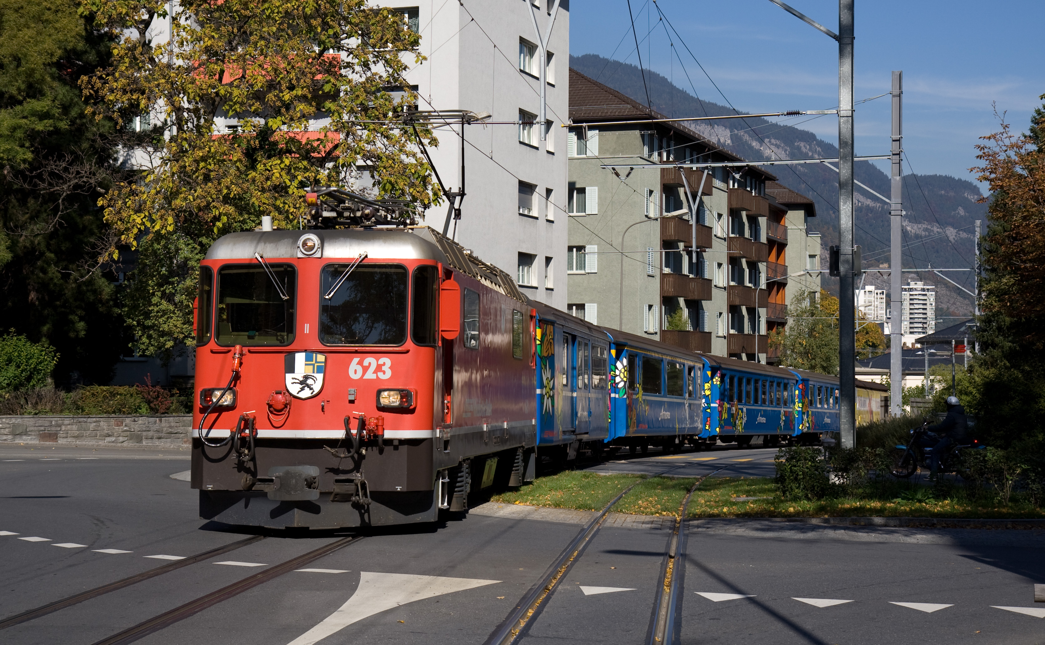 Chur-Arosa-Railway going straight through a roundabout in the streets of Chur. The train is pulled by a standard RhB Ge 4/4 II locomotive and an additional freight car is pulled along.